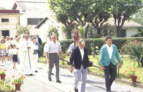 Procession in Kalexar, Usurbil